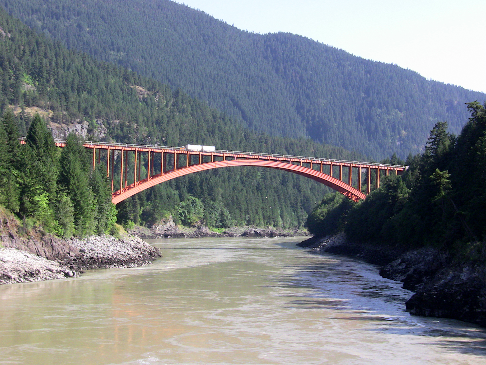 Side shot of the Alexandra Bridge in British Columbia. This Bridge carries traffic along the Trans-Canada Highway, over the Fraser river. It is located just north of spuzzum.